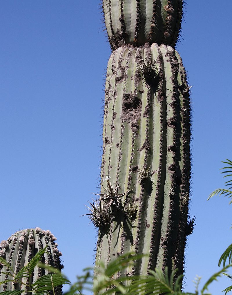 Tillandsia xiphioides, growing epiphytically on a cacti in habitat in Peru, exact location unknown.